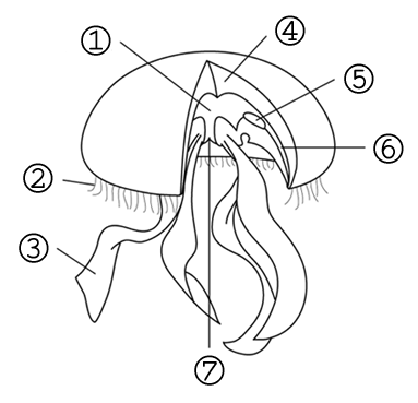 MOON JELLY Drawer:Eurovich of the Comacontrol